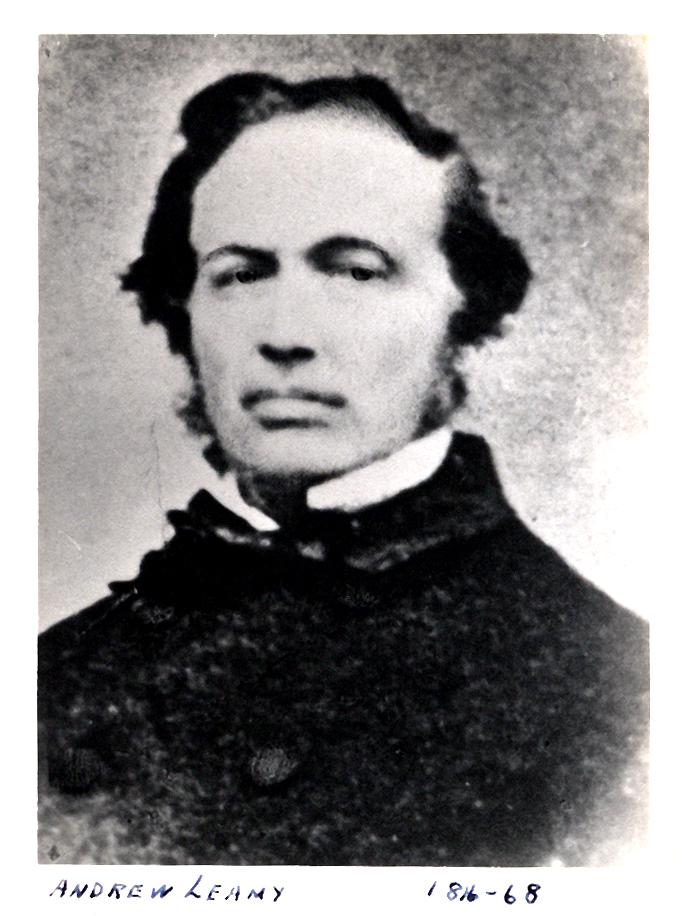 Photo of Andrew Leamy, pioneer industrialist of Hull QC.